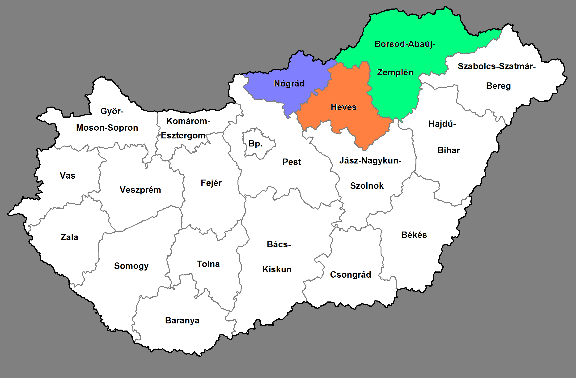 Map of Northern Hungary (Észak Magyaroszág), a NUTS 2 regions of Hungary.